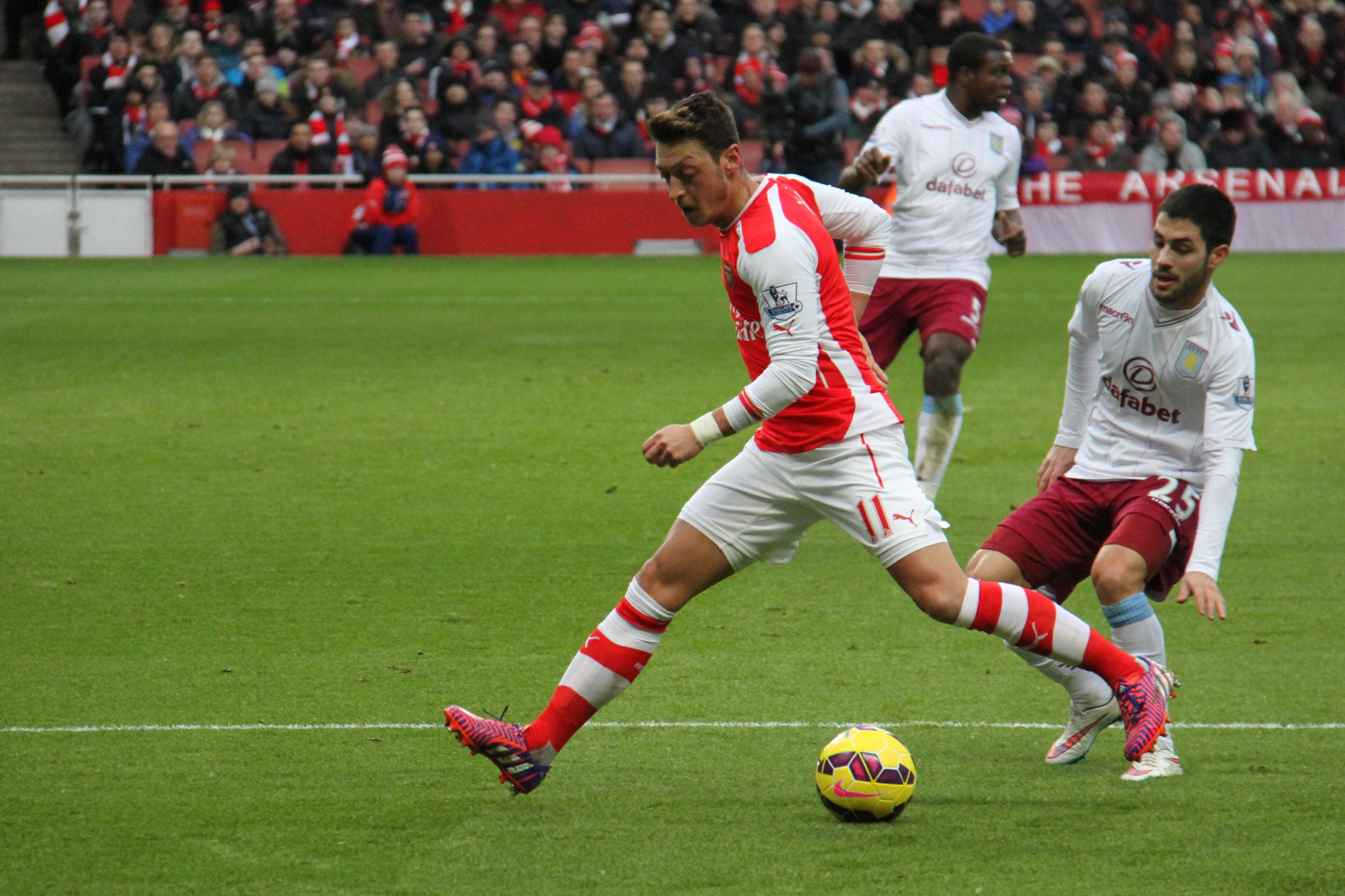 Mesut Özil on the ball 4